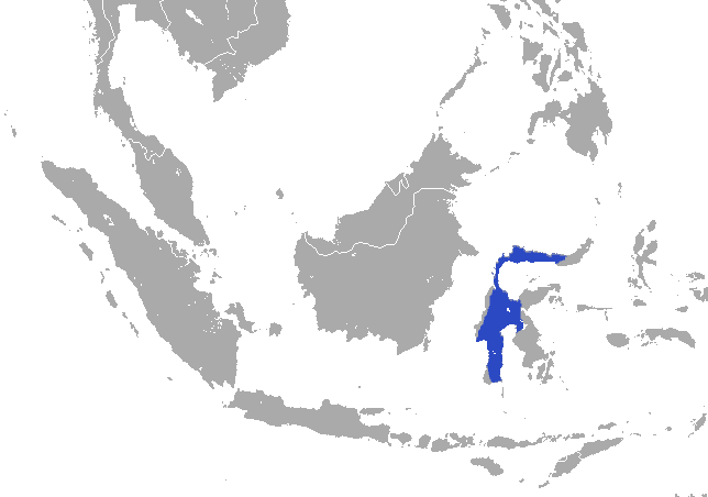 Sulawesi White-handed Shrew (Crocidura rhoditis) range